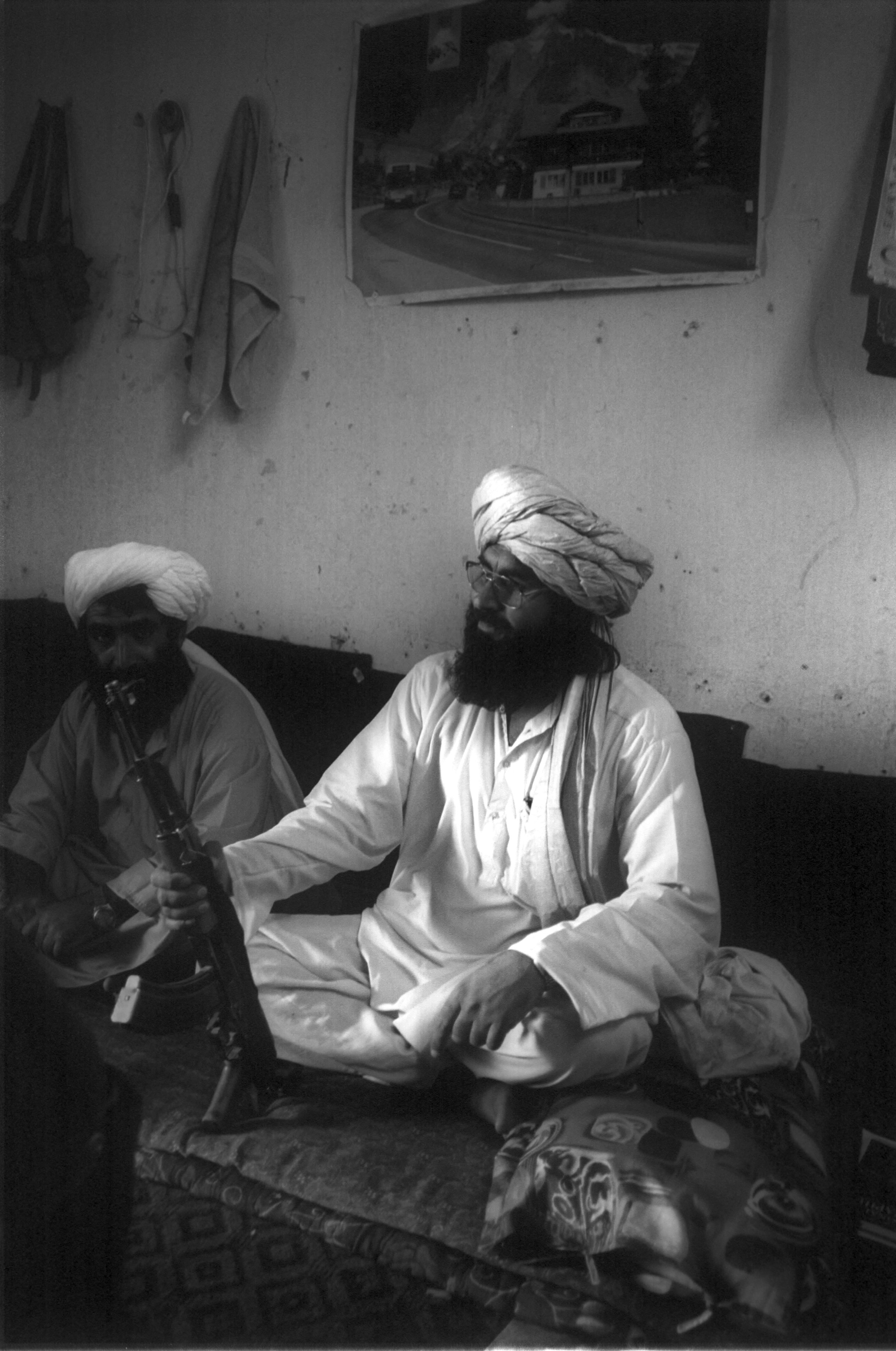 Taliban border guard in Turkham, Afghanistan.